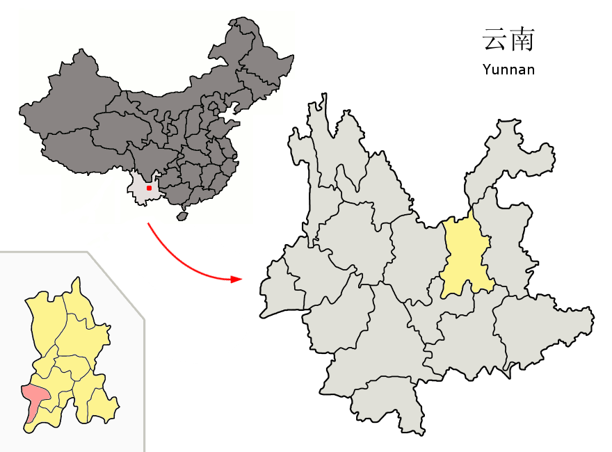 Location of Anning County (pink) and Kunming prefecture (yellow) within Yunnan province of China Map drawn in september 2007 using various sources, mainly : Yunnan province administrative regions GIS data: 1:1M, County level, 1990 Yunnan Counties map from